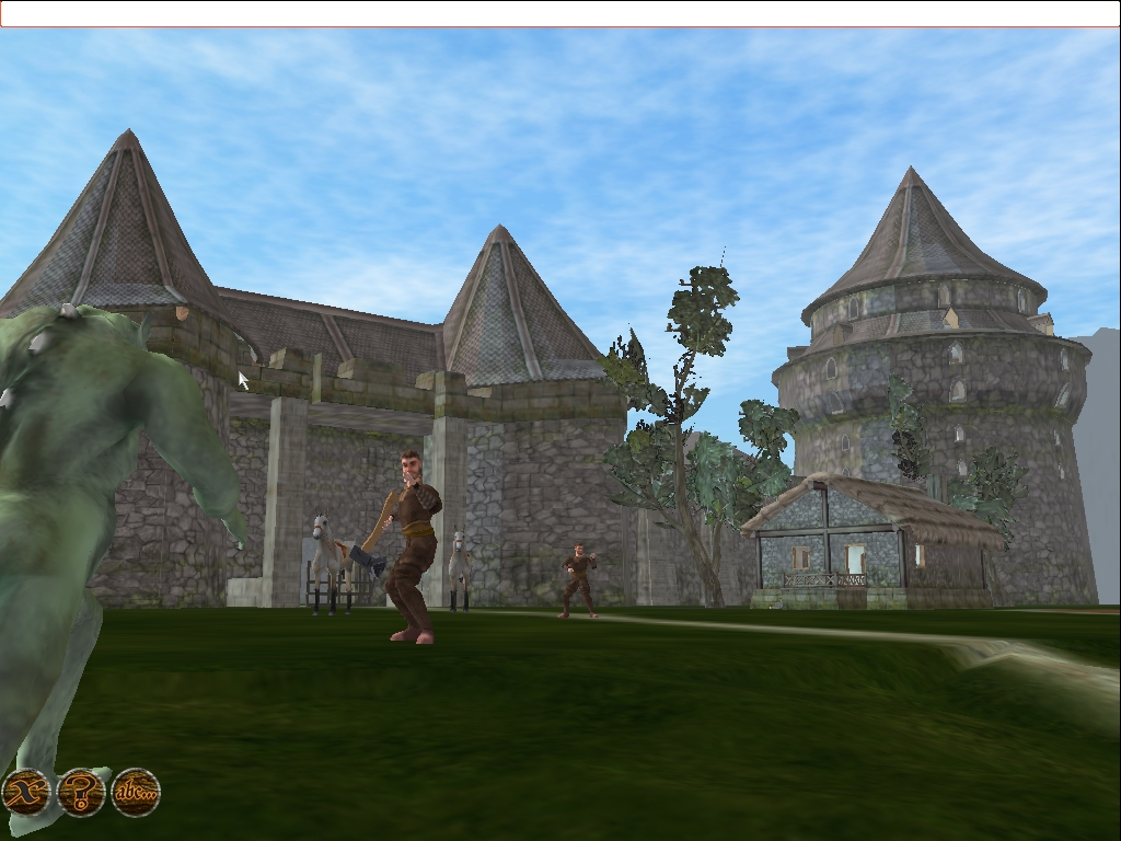 A screenshot from the Worldforge client Ember showing a goblin raid on a castle. Belongs to the "Worldforge" article. Taken by Erik Hjortsberg, main developer of Ember.